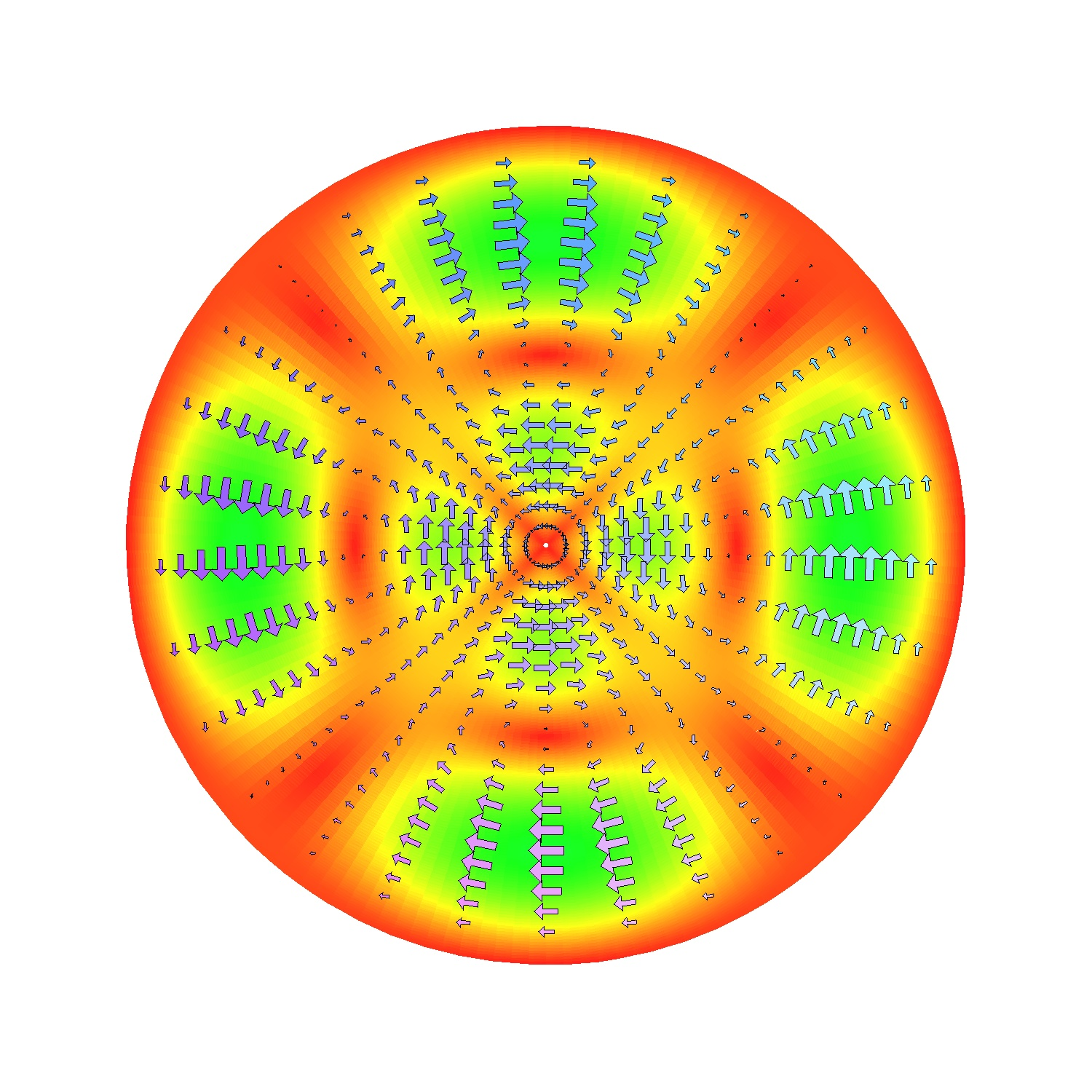 Plot of E and H fields on the TEnl mode defined by n and l.